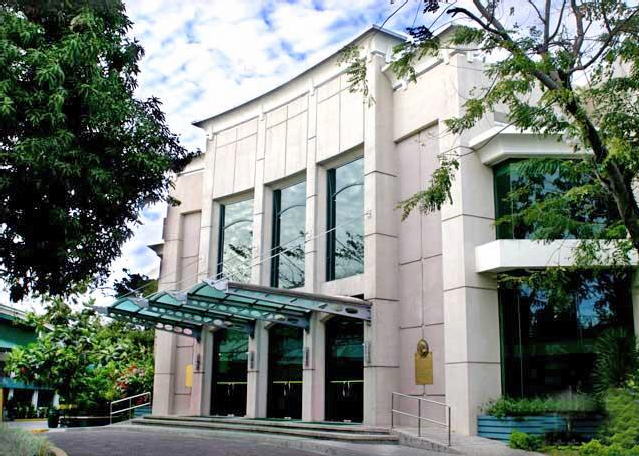 Facade of the King Center